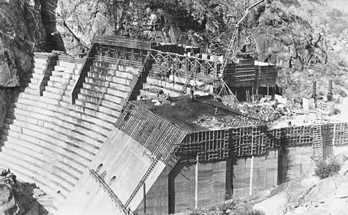 California's O'Shaughnessy Dam under construction in August 1922